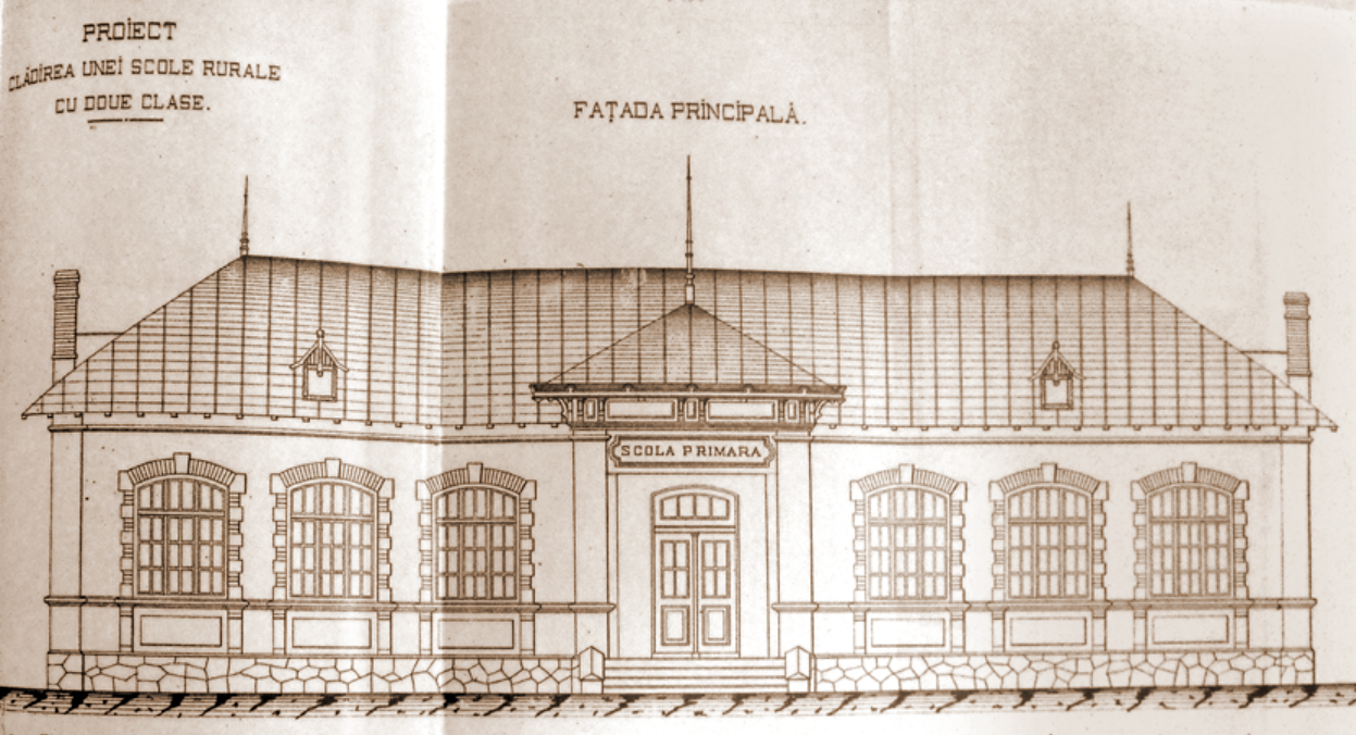 Standard plan for a rural public school - type ”superior” - from the ”Old Kingdom”